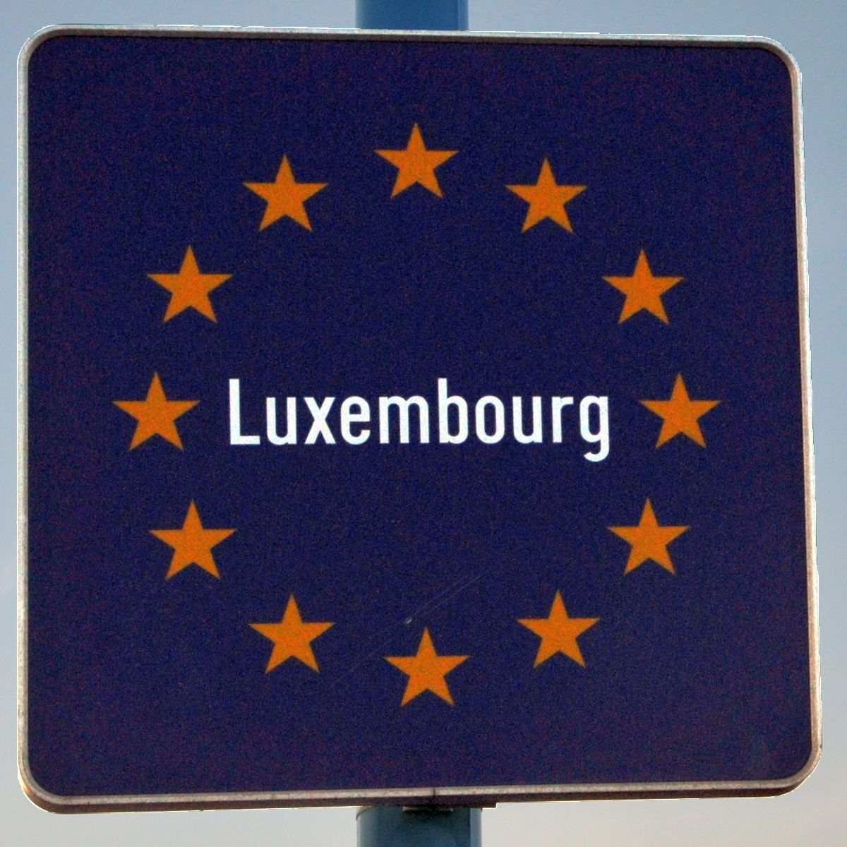 Schengen Agreement Border Crossing sign - Luxembourg